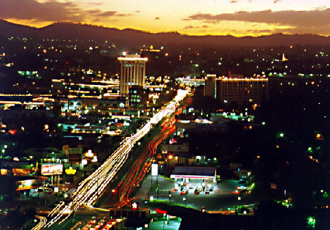 San Salvador